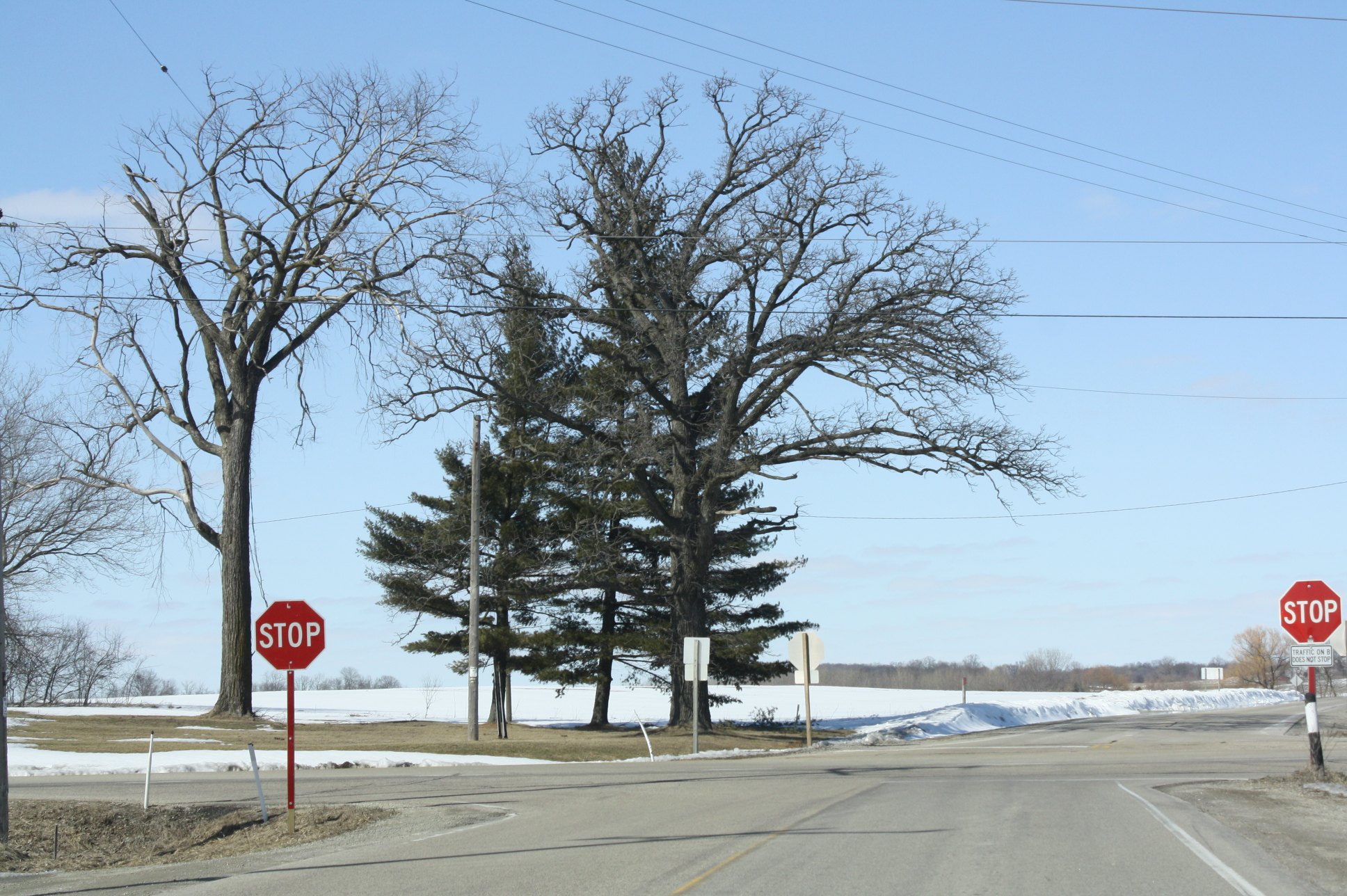 Looking north at the Town of Farmington (Jefferson County, Wisconsin) at the intersection of county highways D and B.